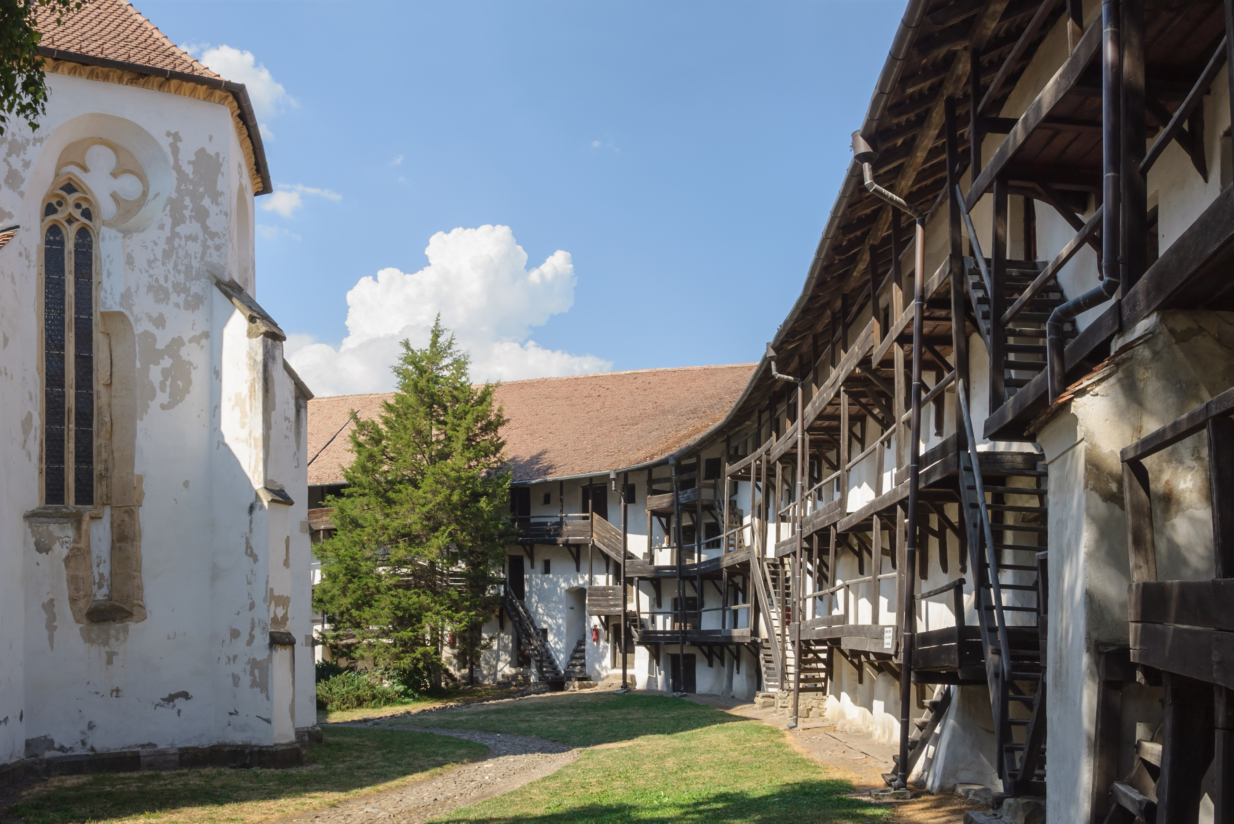 In the interior courtyard of the fortified church of Prejmer, Braşov County, Transylvania, Romania.